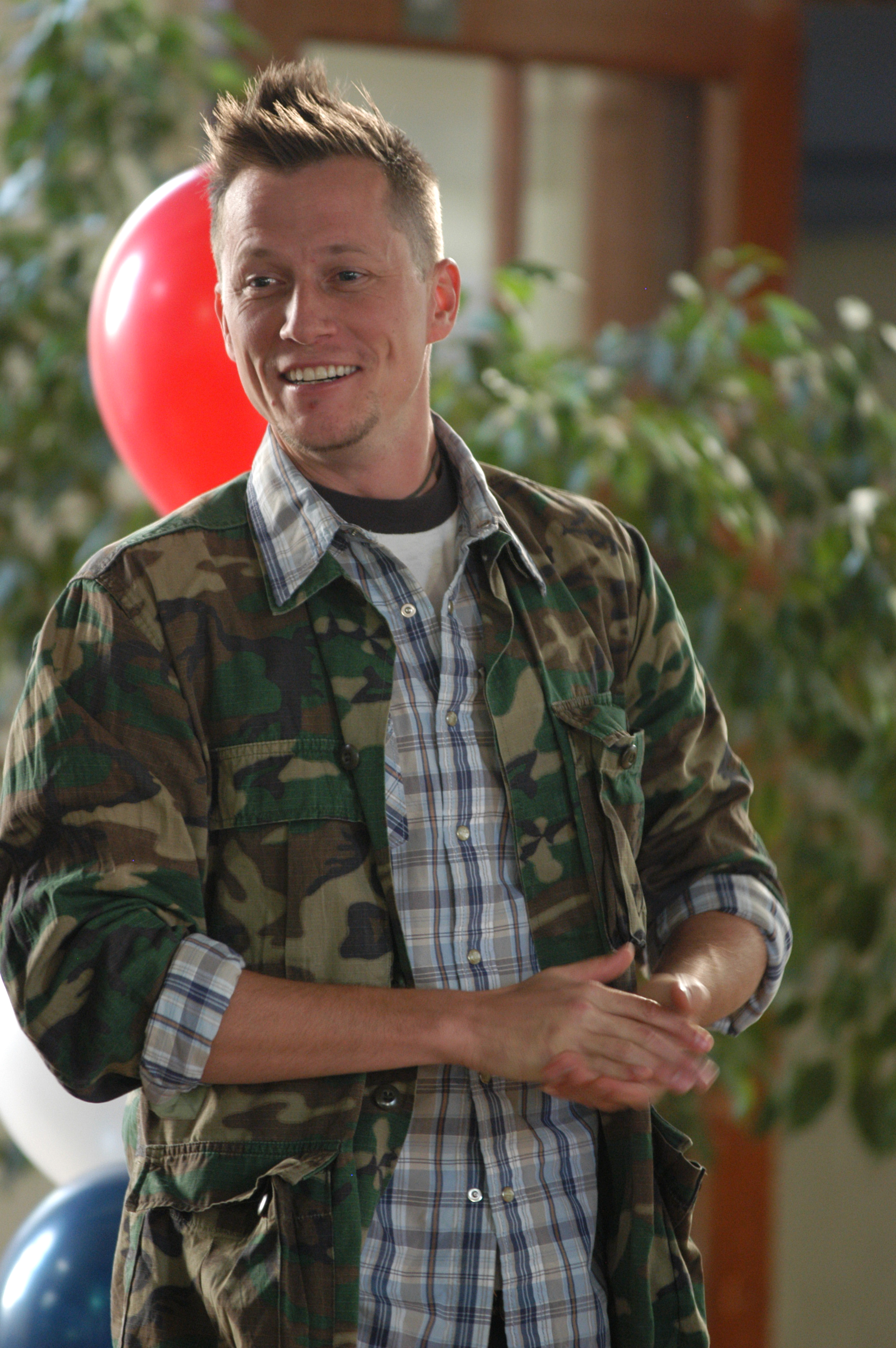 Actor Corin Nemec at Gatecon 2006 in the United Kingdom, August 2006.